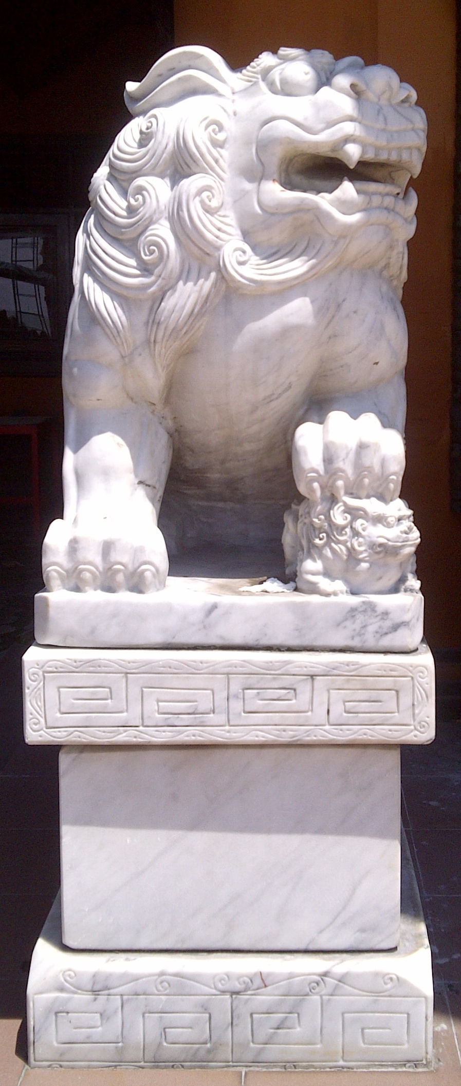 Right Chinese lion statue represent Yin force, female, negative, take, carry a cub. Sanggar Agung Temple, Surabaya, Indonesia.